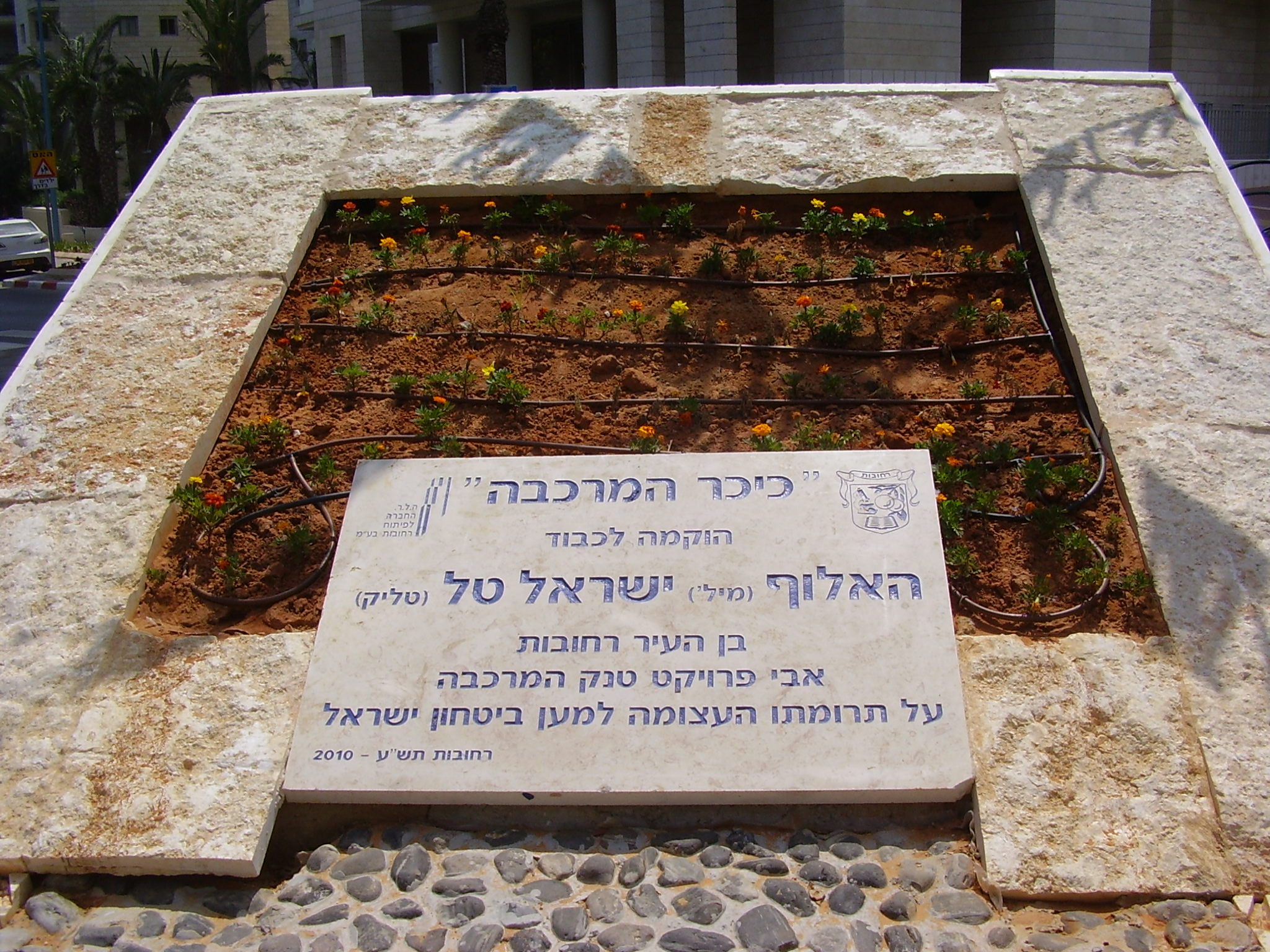 merkava (tank) square in rehovot